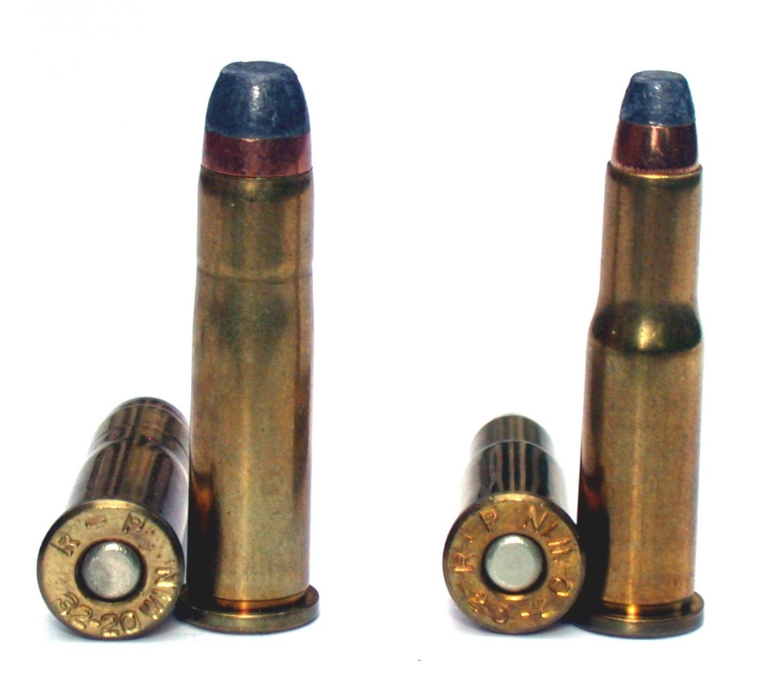 .32-20 WCF left, .25-20 Winchester right